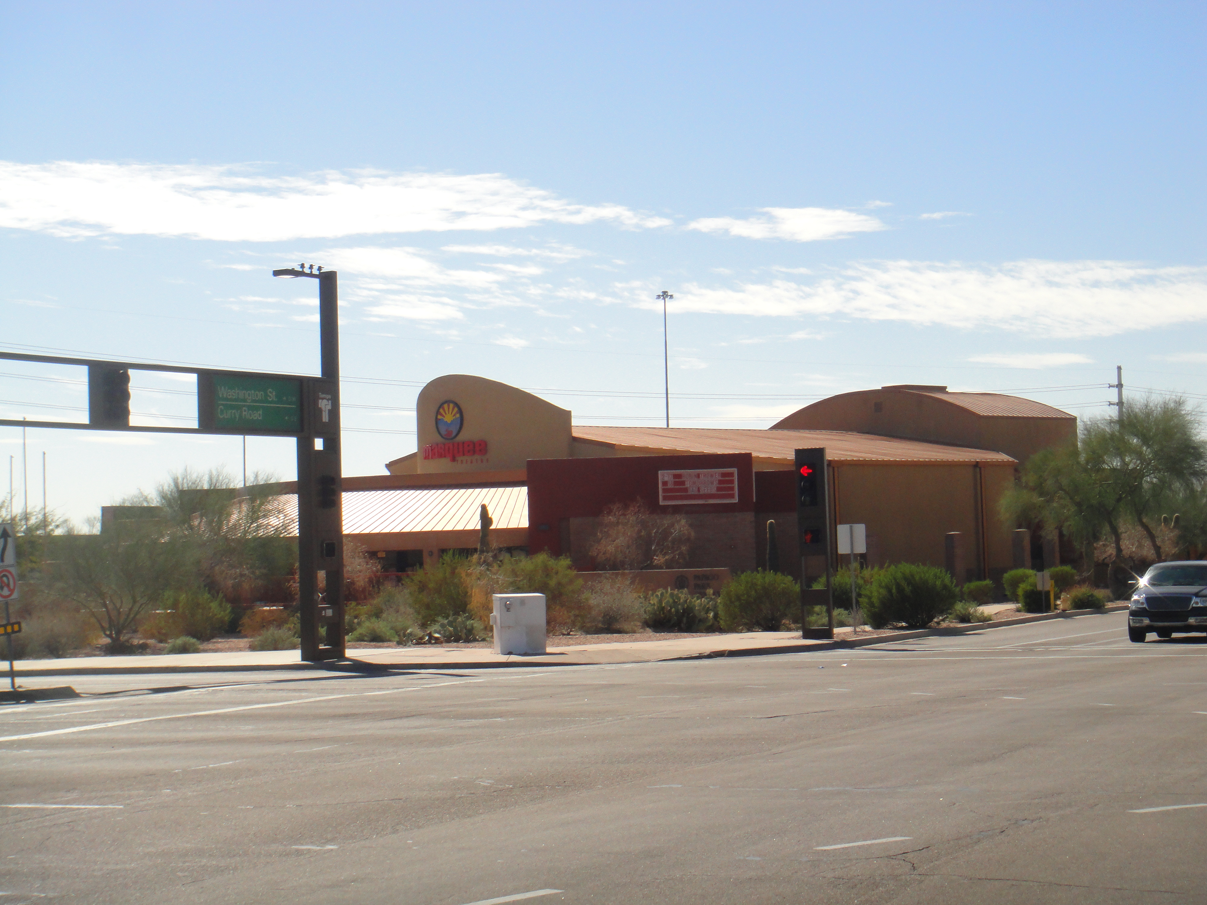 Photo of the north east side of the Marquee Theatre in Tempe, Arizona.